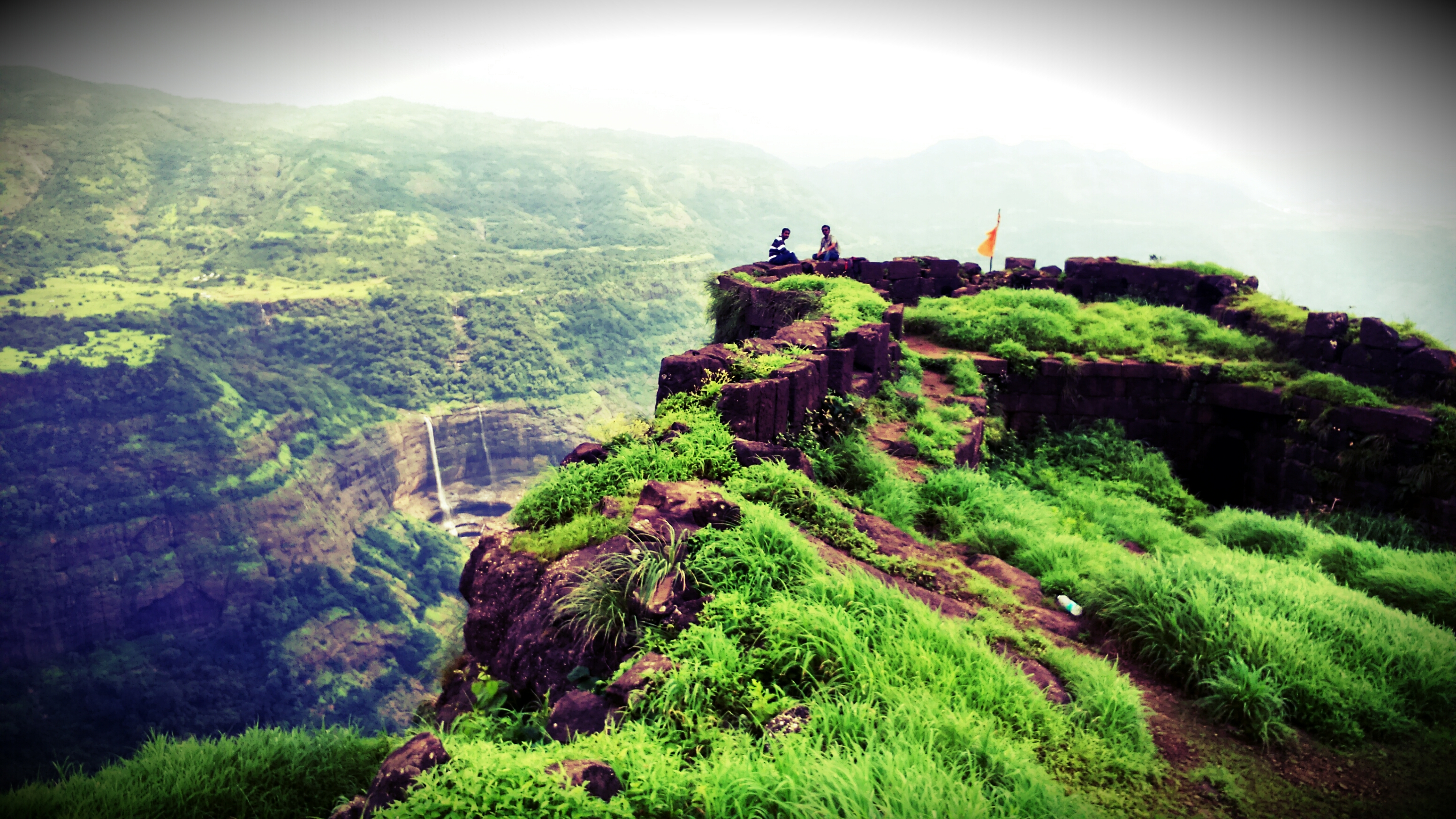 photo caputure in 2014 on rajmachi fort